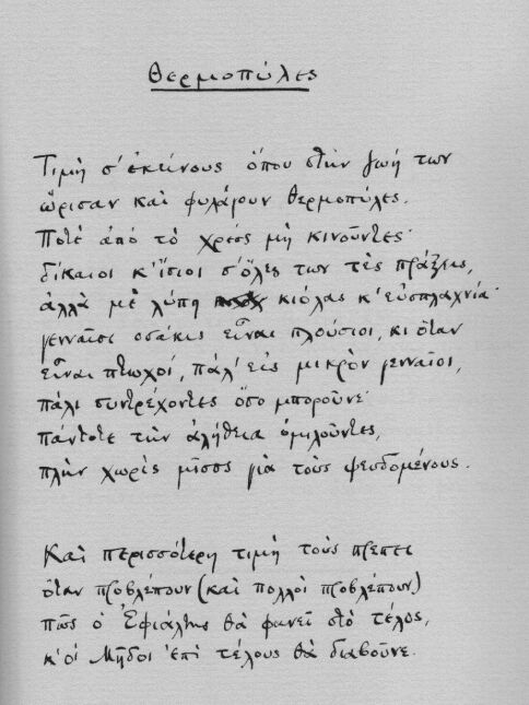 The manuscript of the poem Θερμοπύλες (Thermopyles) by Konstantínos Kaváfis (Constantine P. Cavafy)